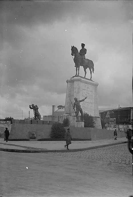 Turkey. Ankara. Equestrian statue of Ataturk between old & new Ankara.